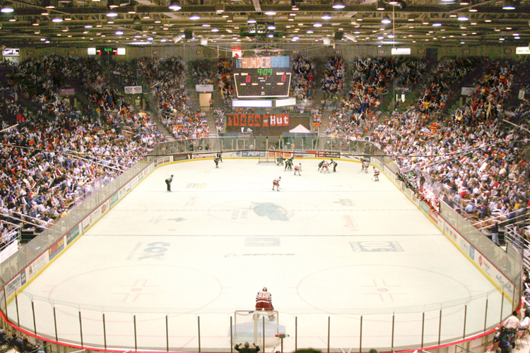 Inside Britt Brown Arena after Wichita Thunder game.